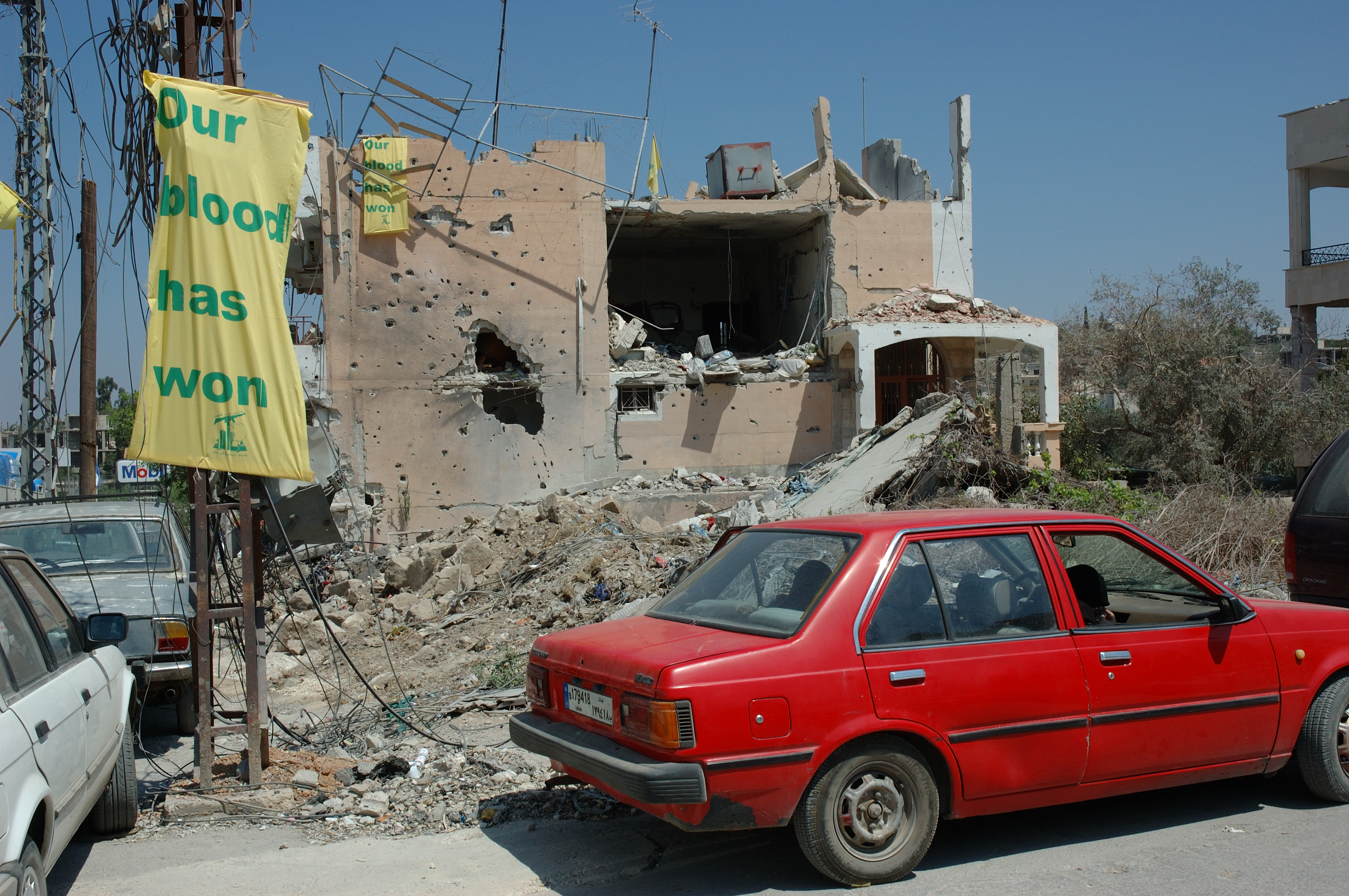 The village of Taybeh is about 5km from the border. Stuck on the walls of almost every house in Taybeh were pictures of fallen Hezbollah fighters. As we arrived the inhabitants were spilling out of the Mosque having just attended a memorial for them.